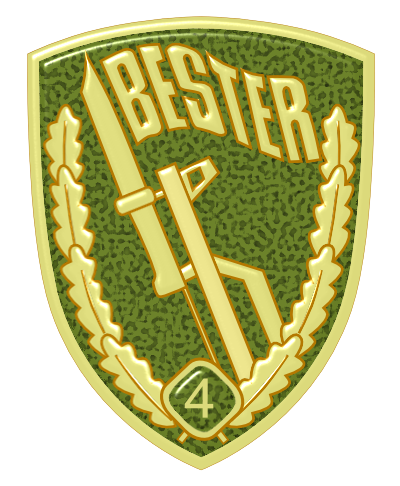 Bestenabzeichen der Grenztruppen der DDR 1986-1990